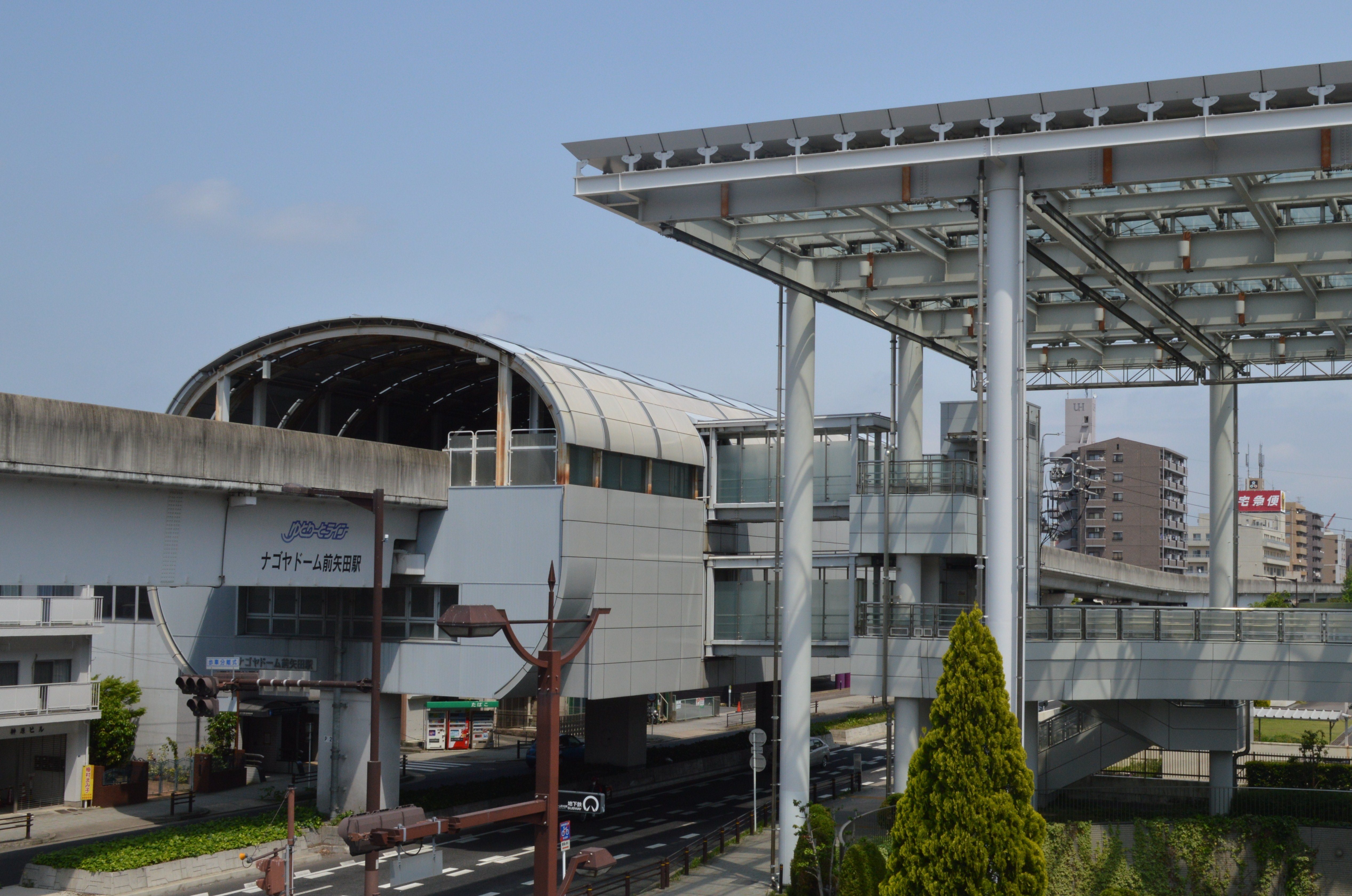 名古屋ガイドウェイバス（ゆとりーとライン）ナゴヤドーム前矢田駅 愛知県名古屋市東区